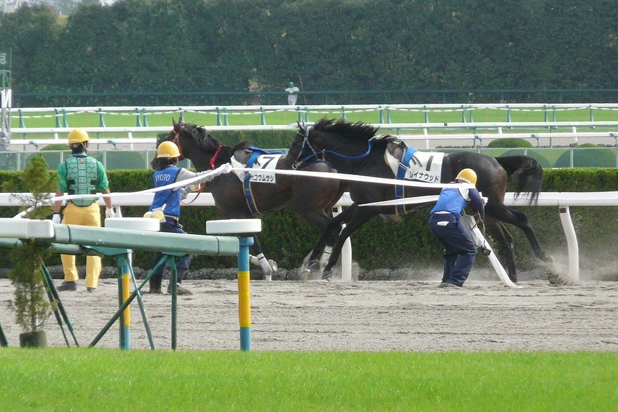 Kyoto-Racecourse-03